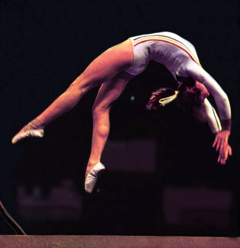 Nadia Comăneci at the 1976 Olympics